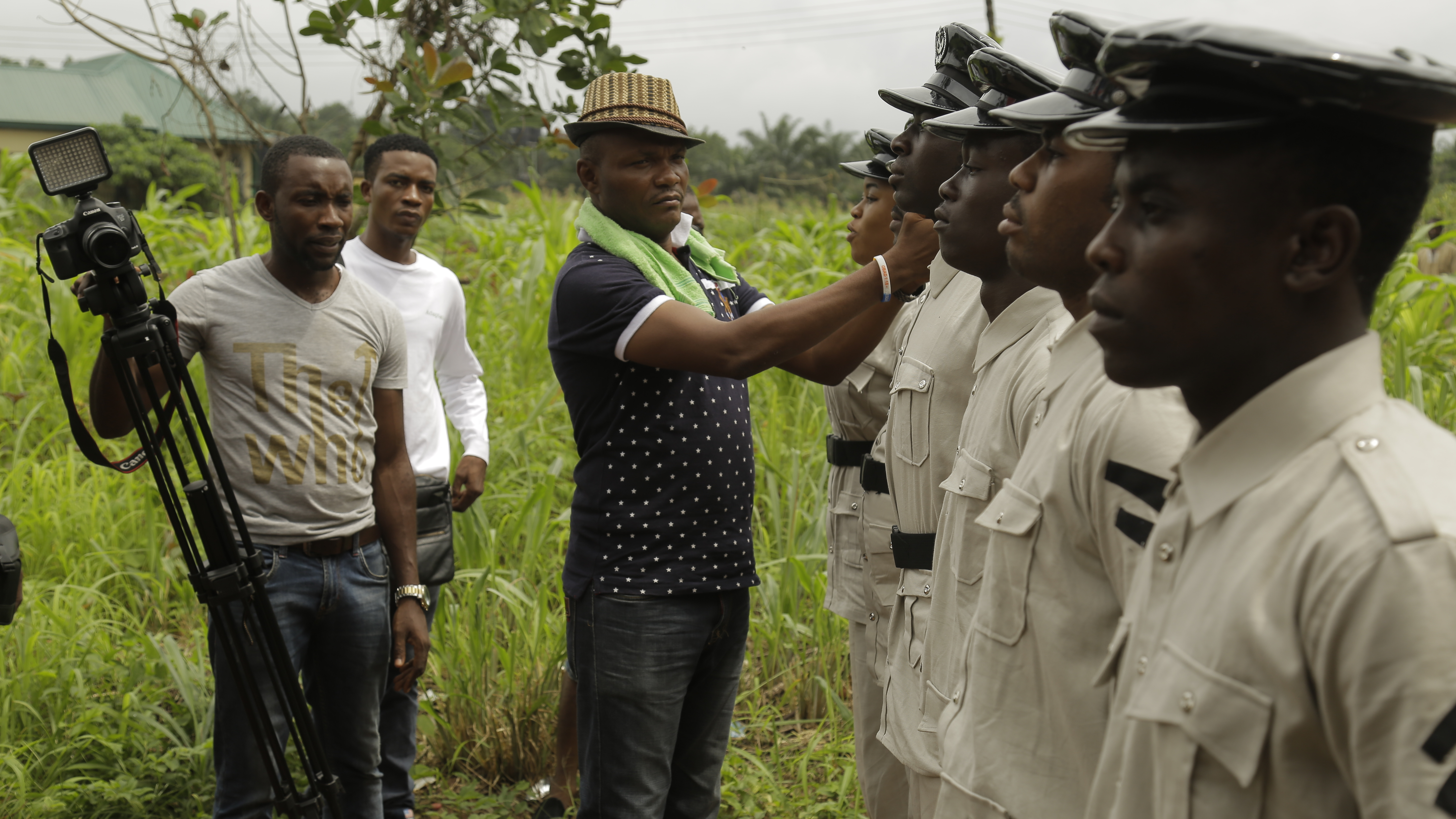 Behind the scene picture is an african movie called the JAJA THE GREAT edited by Samuel David Chinedu This is an image of "African people at work" from Nigeria